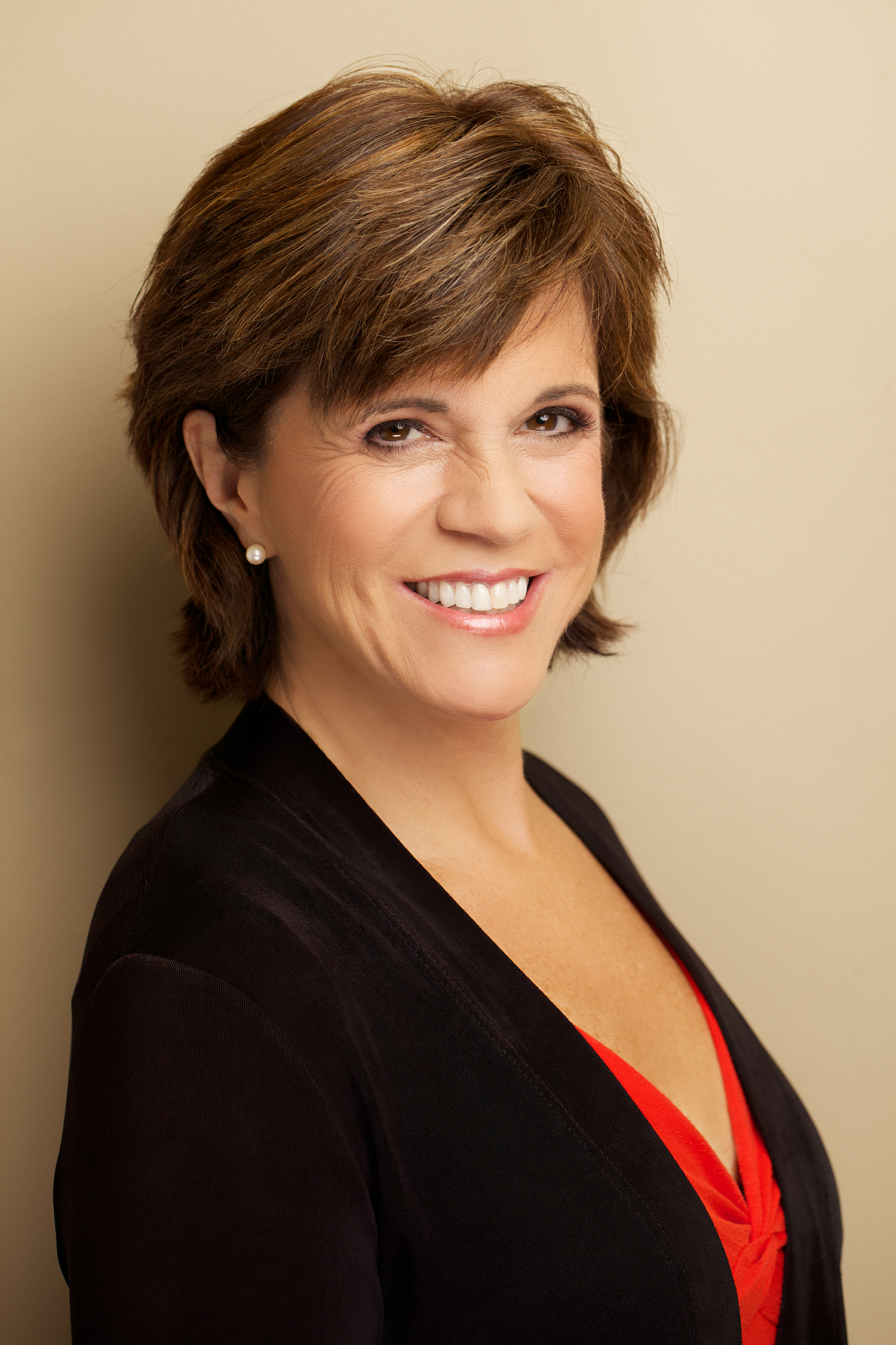 Photograph of actress Maggie Roswell